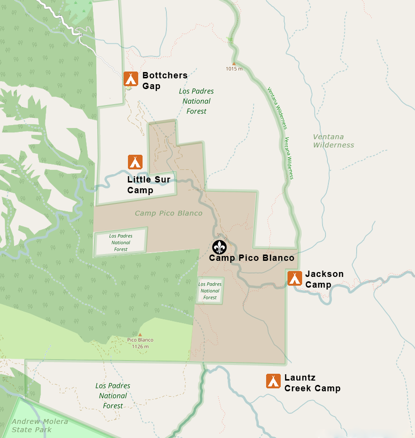 Map of vicinity of Camp Pico Blanco, Big Sur, California. Created using OpenStreetMap.